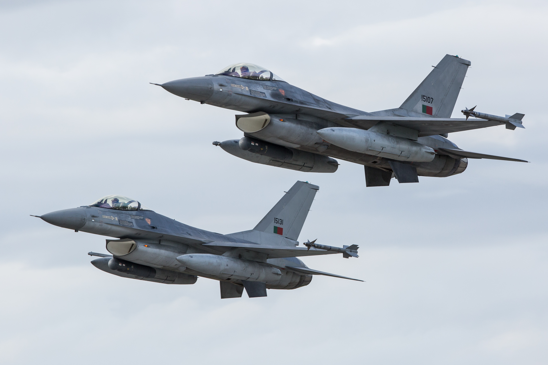 Two portuguese F-16 over Beja Air Base, Portugal. Photo: OR-7 Christian Timmig, NMIC TRJE15, Beja